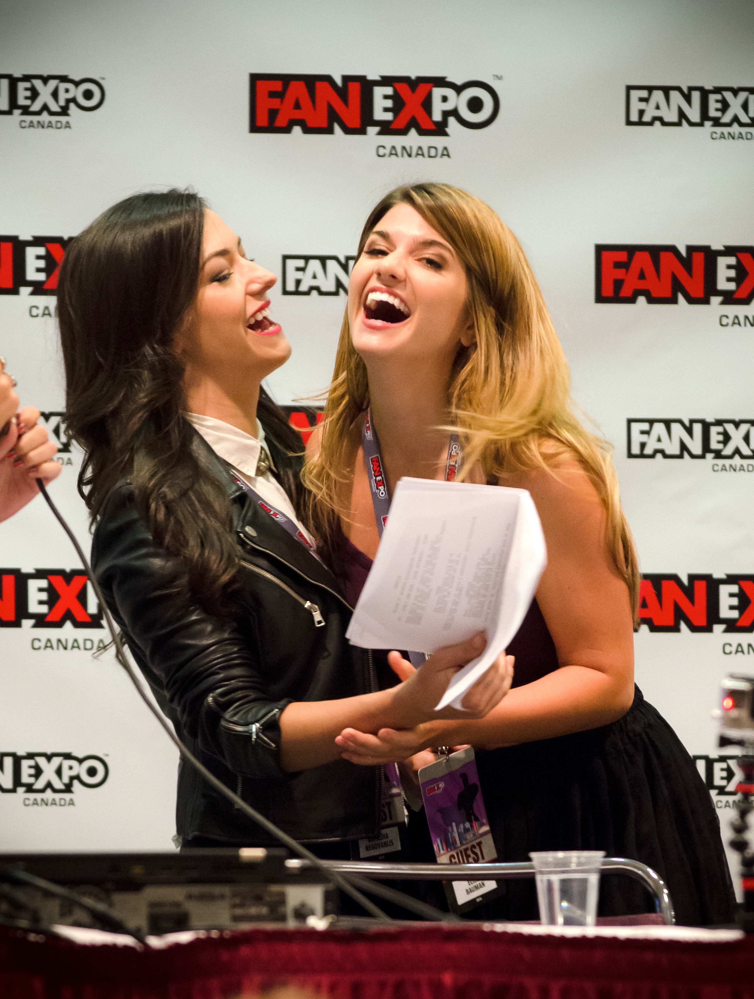 Panel for the webseries Carmilla at Fan Expo Canada in Toronto in 2015